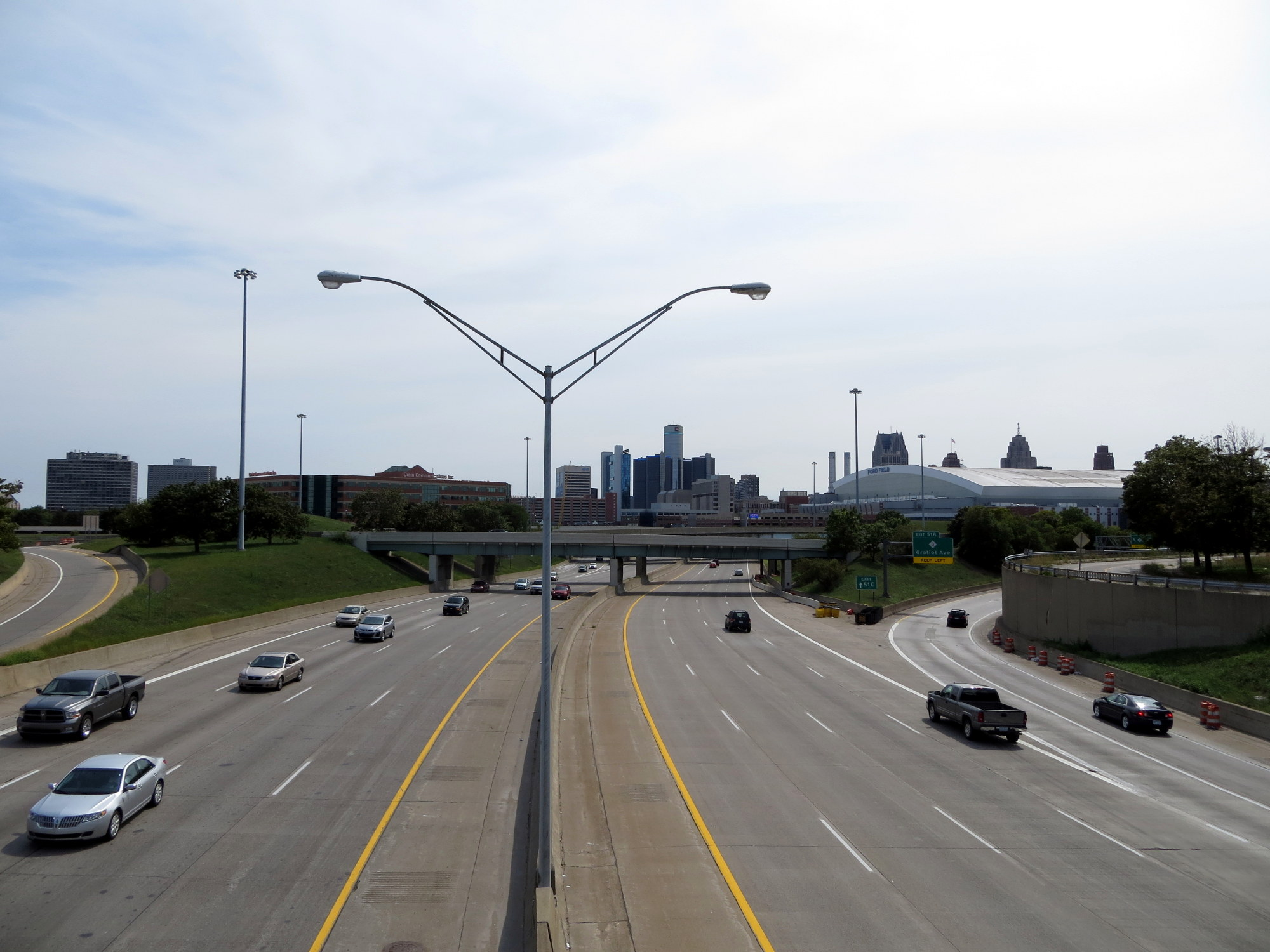 I-75 (Chrysler Freeway) looking south towards the downtown Detroit skyline